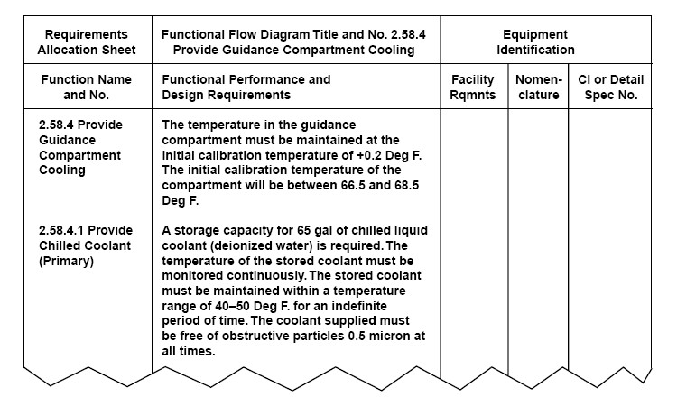 Image extracted from Systems Engineering Fundamentals. Defense Acquisition University Press, 2001